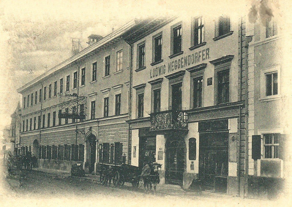 Schuhbraeu Hotel and Meggendorfer grocery store and bank in Bad Aibling around 1900